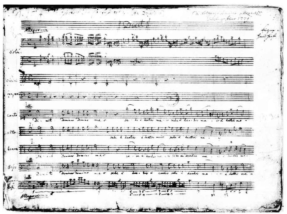 Page 1 of the autograph of Vesperae solennes de Dominica, K. 321